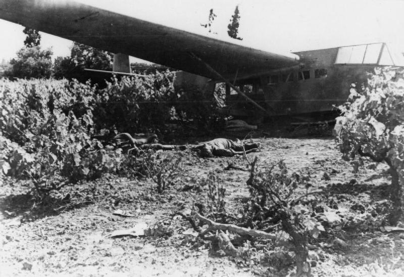 A crashed German DFS 230 glider with two of its occupants lying dead alongside. - 6 June 1941